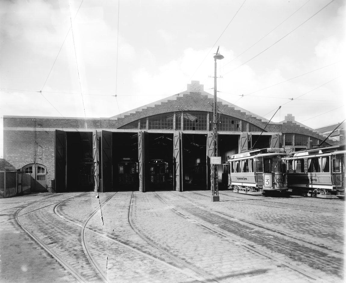 Copenhagen Tramways remise complex at Enghavevej in Copenhagen, Denmark